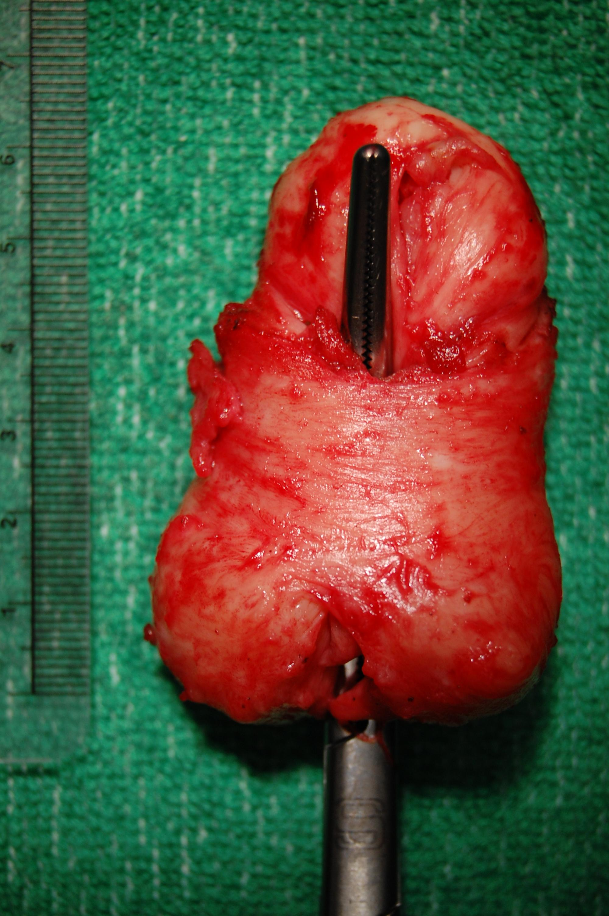 Prostate with a large median lobe bulging upwards. A metal instrument is placed in the urethra which passes through the prostate. This specimen was almost 7 centimeters long and was removed during a Hryntschak procedure (transvesical prostatectomy) for benign prostatic hyperplasia.